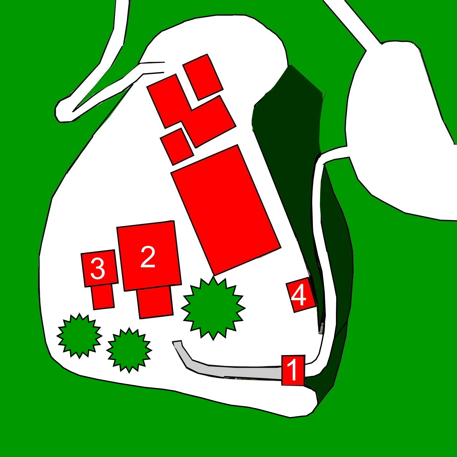 Layout of Zenjibuji Temple at Nankoku, Japan